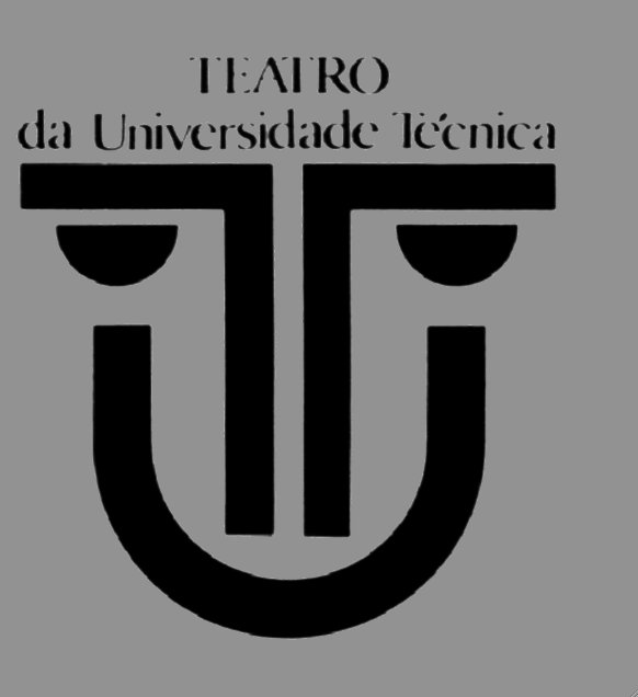 Logo do TUT.